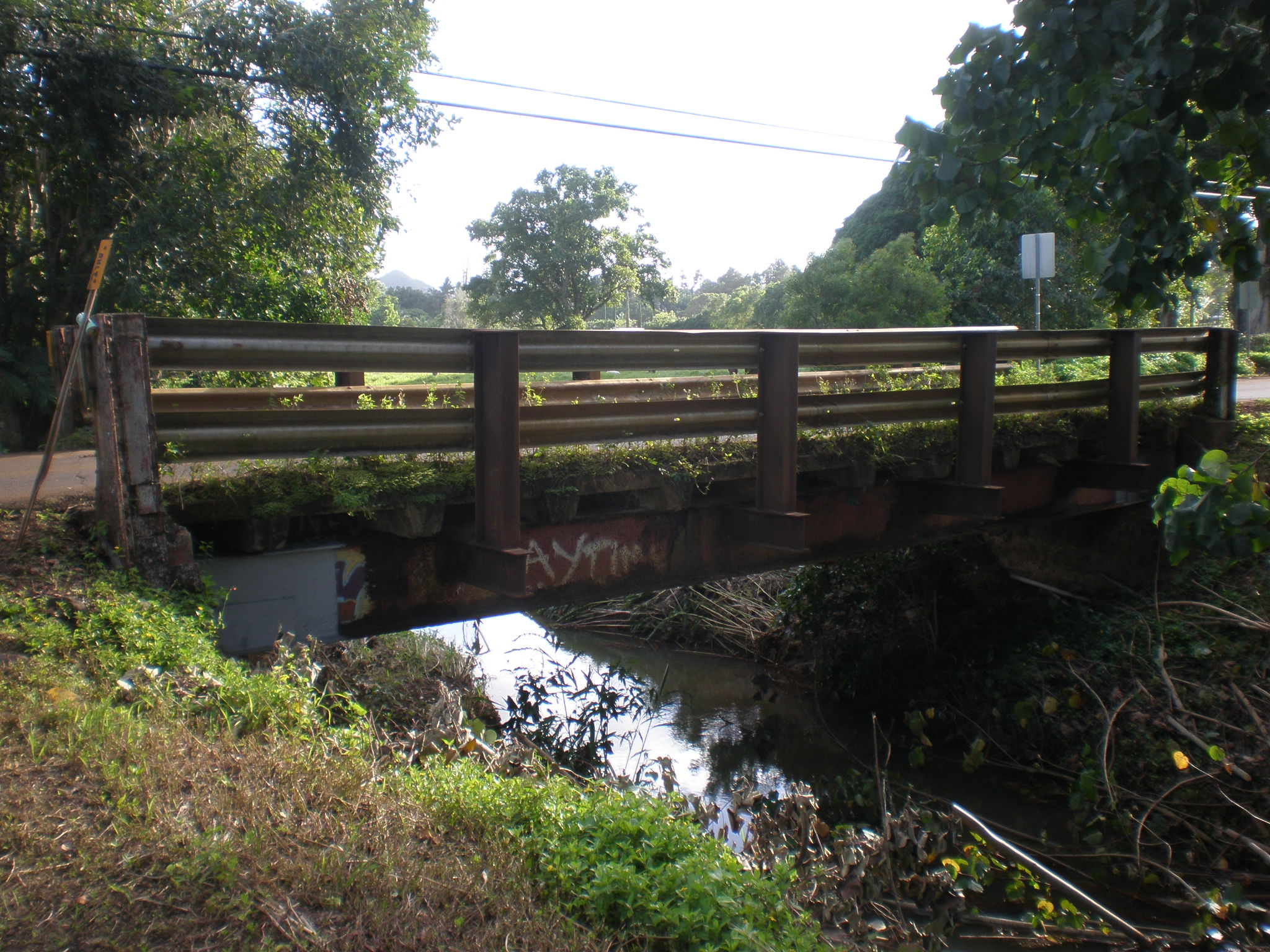 Puʻuʻōpae Bridge (under side), Puʻuʻōpae Road, Kapaʻa, Kauaʻi, one-lane, steel truss, on National Register of Historic Places